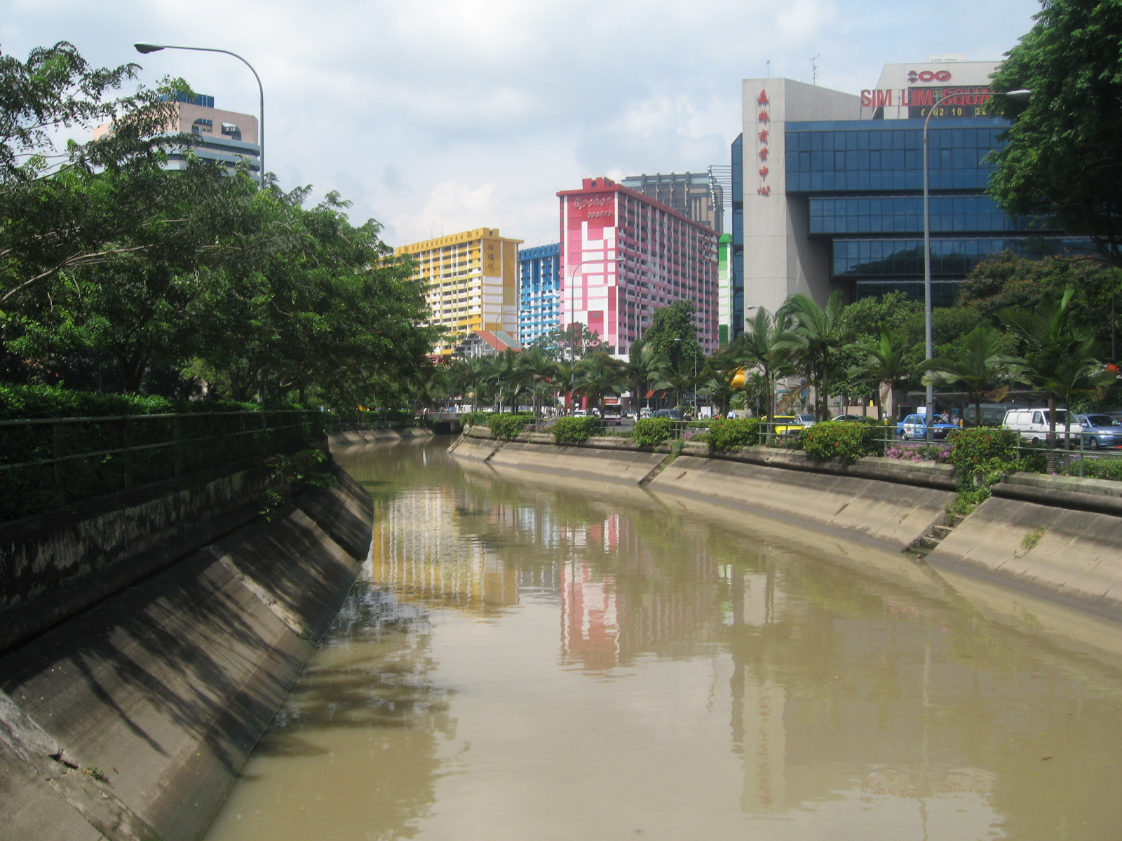 Rochor Canal.